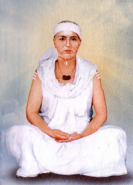 An artist's drawing of Yogmaya approved by Nepal Government and published in an official stamp released in 2017.